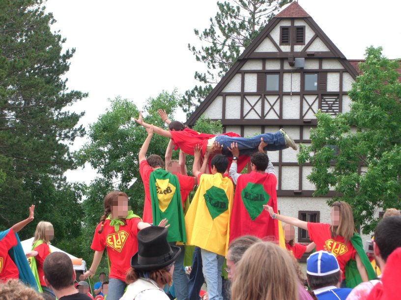 A Concordia Language Villages' International Day closing program performance. This I-Day performance was by the villagers of El Lago del Bosque, the Spanish immersion language camp.